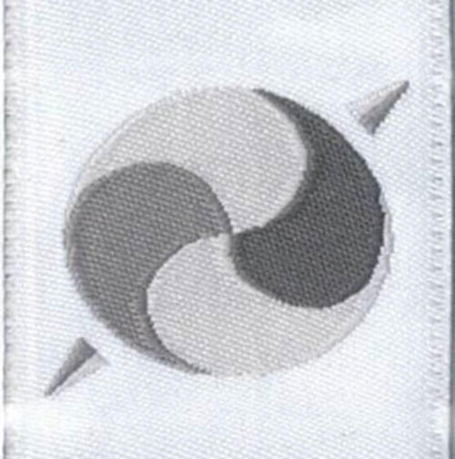 Ribbon section of the Order of the Companions of Oliver Tambo